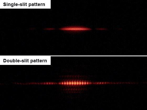 Results from the double slit experiment: Pattern from a single slit vs. a double slit.